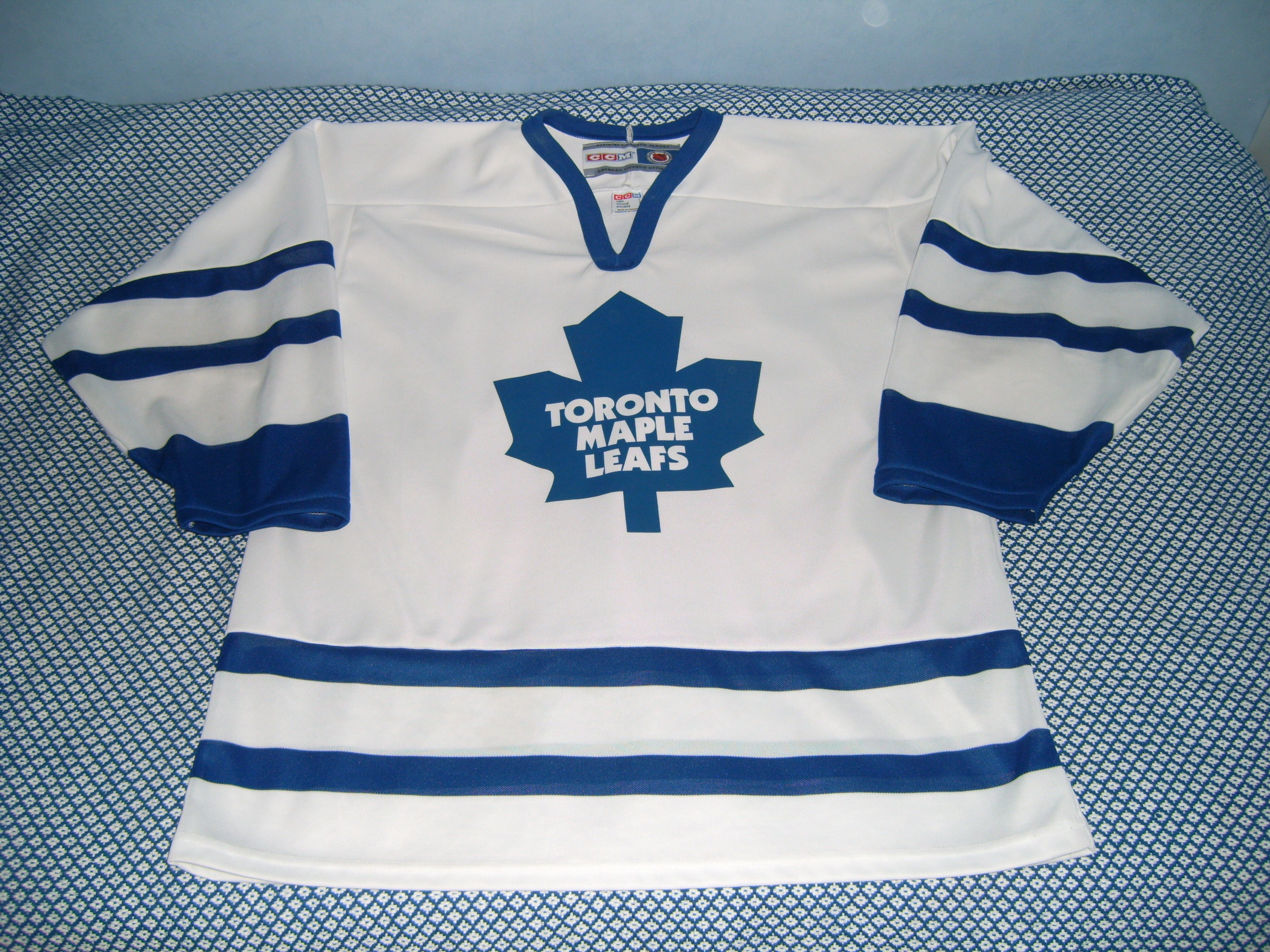 Toronto Maple Leafs' ice hockey jersey.